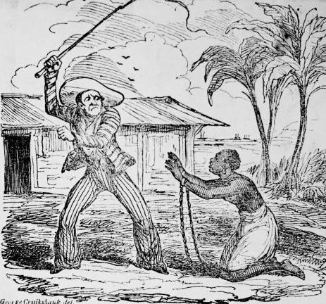 'We still pay a poll tax to support the flogging of women in Jamaica'.A planter with a whip prepares to strike a female slave who is chained and stripped to the waist